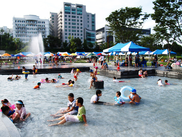 Salgoji park, Children's swimming pool, which is near from Hanyang University